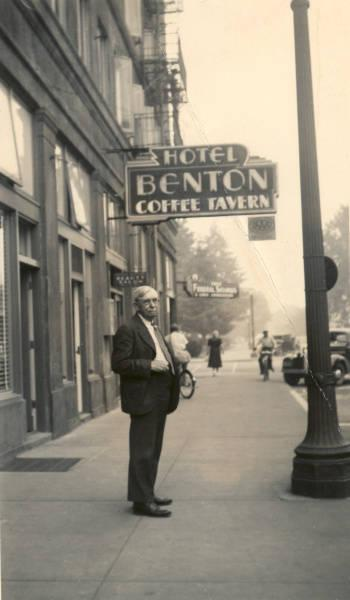 Original Collection: Harriet’s Collection Item Number: HC3418 Restrictions: Please contact the OSU Archives for permissions forms or information on how to cite our collections. Click here to view our digital collections. You can find this image by searching for the item number. Click here to view Oregon State University's other digital collections. We're happy for you to share this digital image within the spirit of The Commons; however, certain restrictions on high quality reproductions of the original physical version may apply. To read more about what “no known restrictions” means, please visit the [” OSU Archives website].